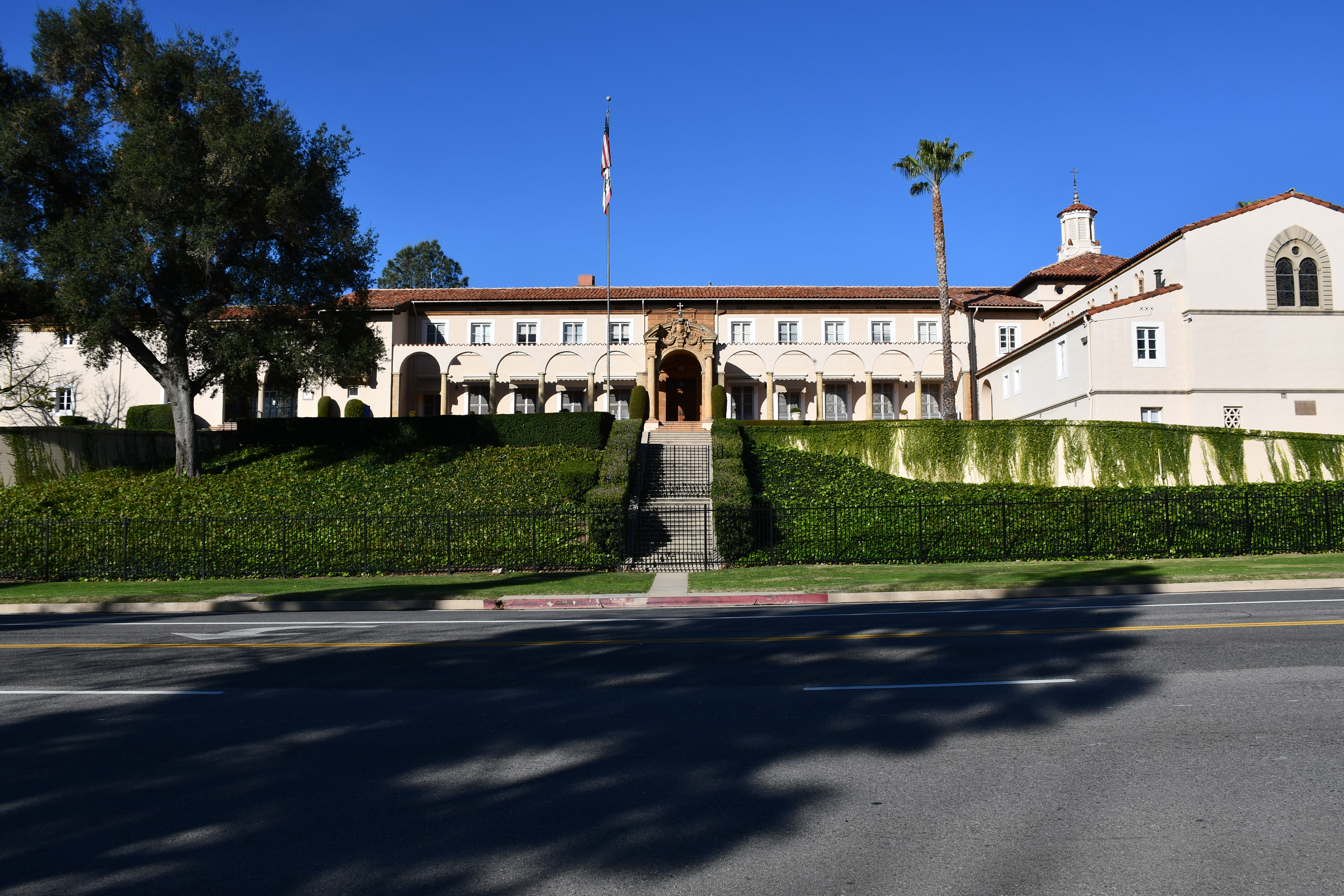 Marymount High School